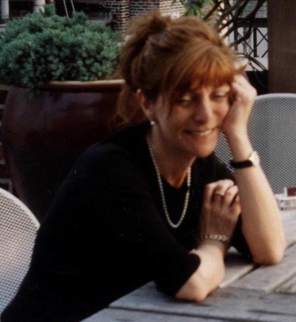 Mercedes Odina Picture